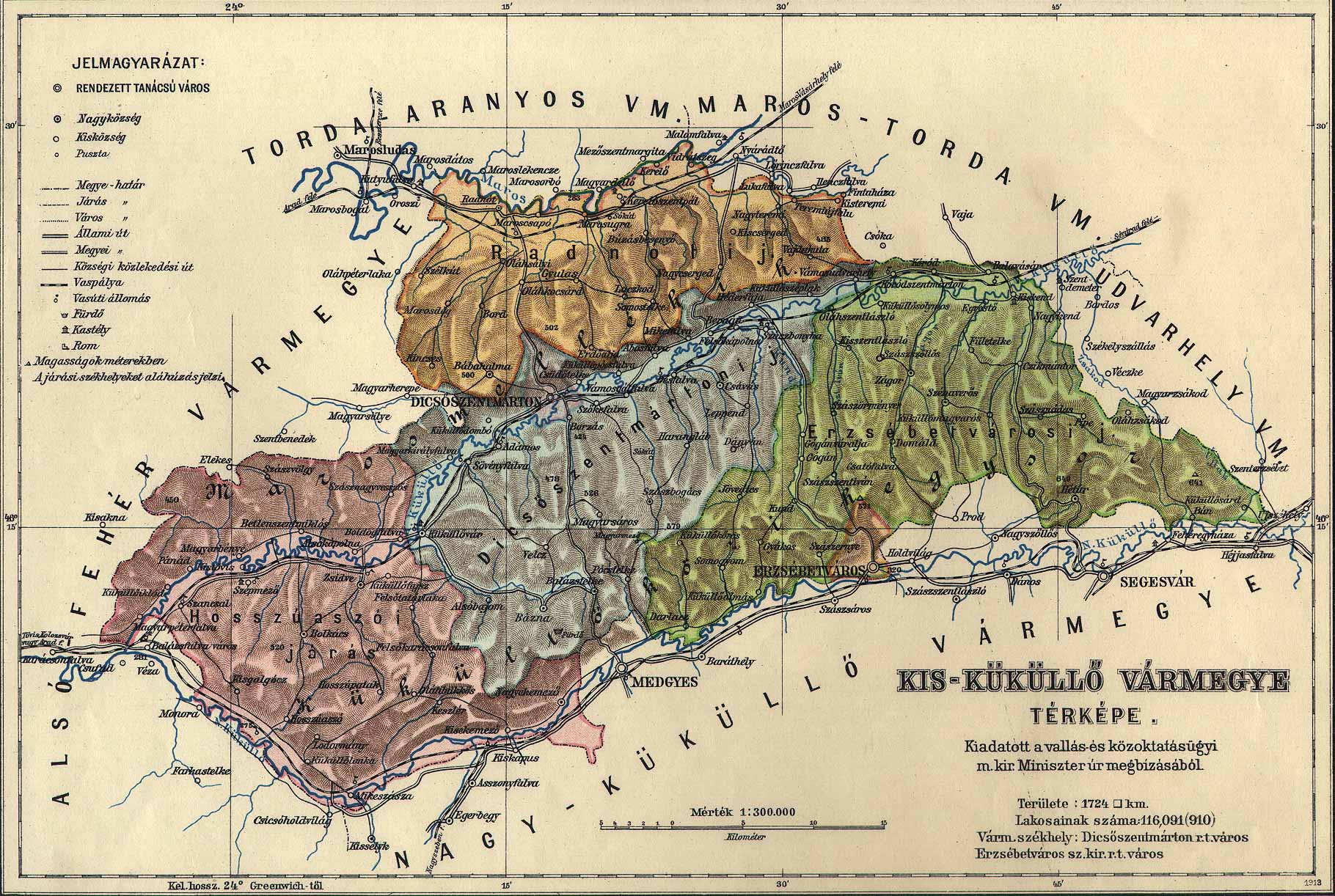 Administrative map of the county of Kis-Küküllő in the Kingdom of Hungary